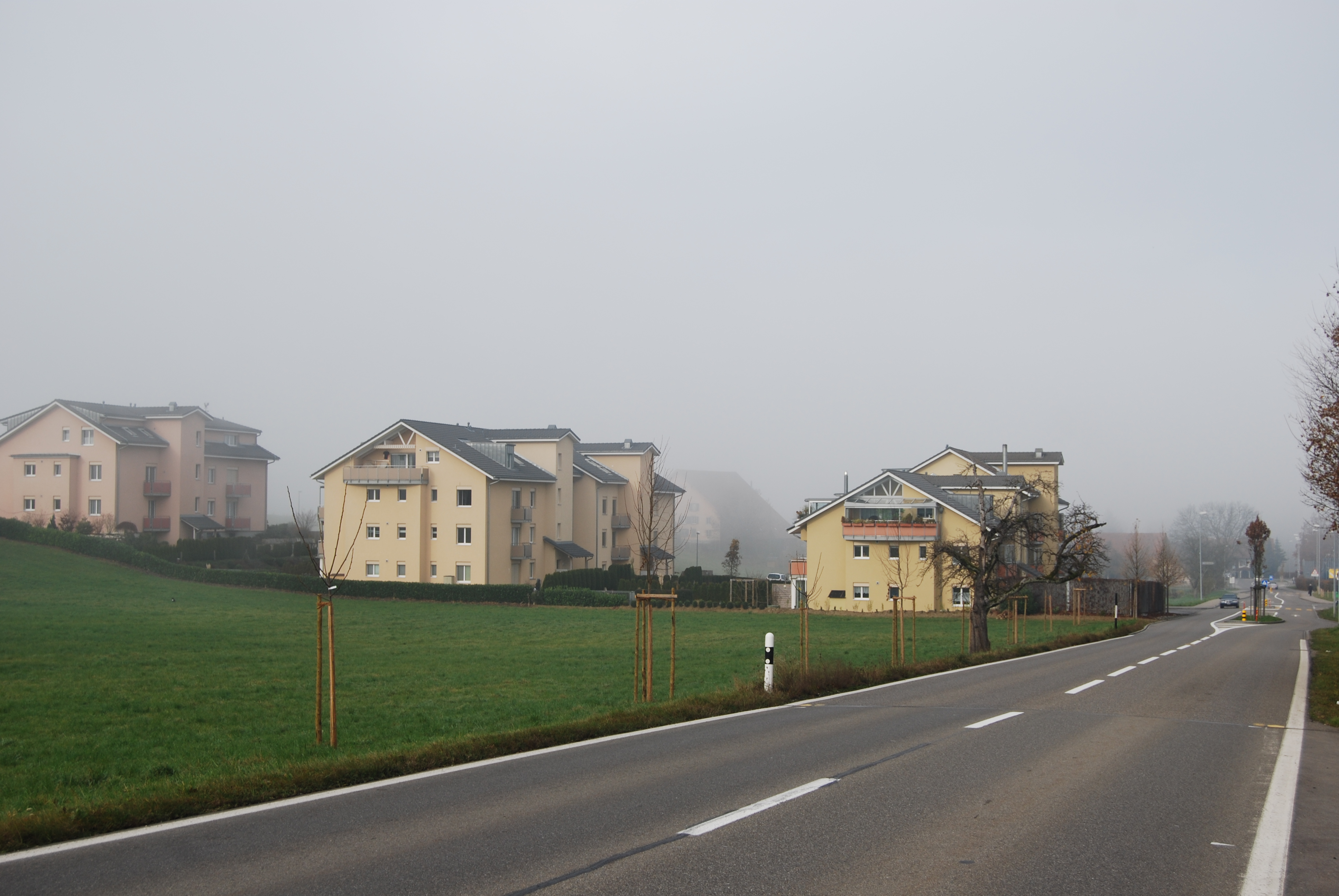 Remetschwil, canton of Aargau, SwitzerlandEsperanto: Remetschwil, Kantono Argovio, Svislando